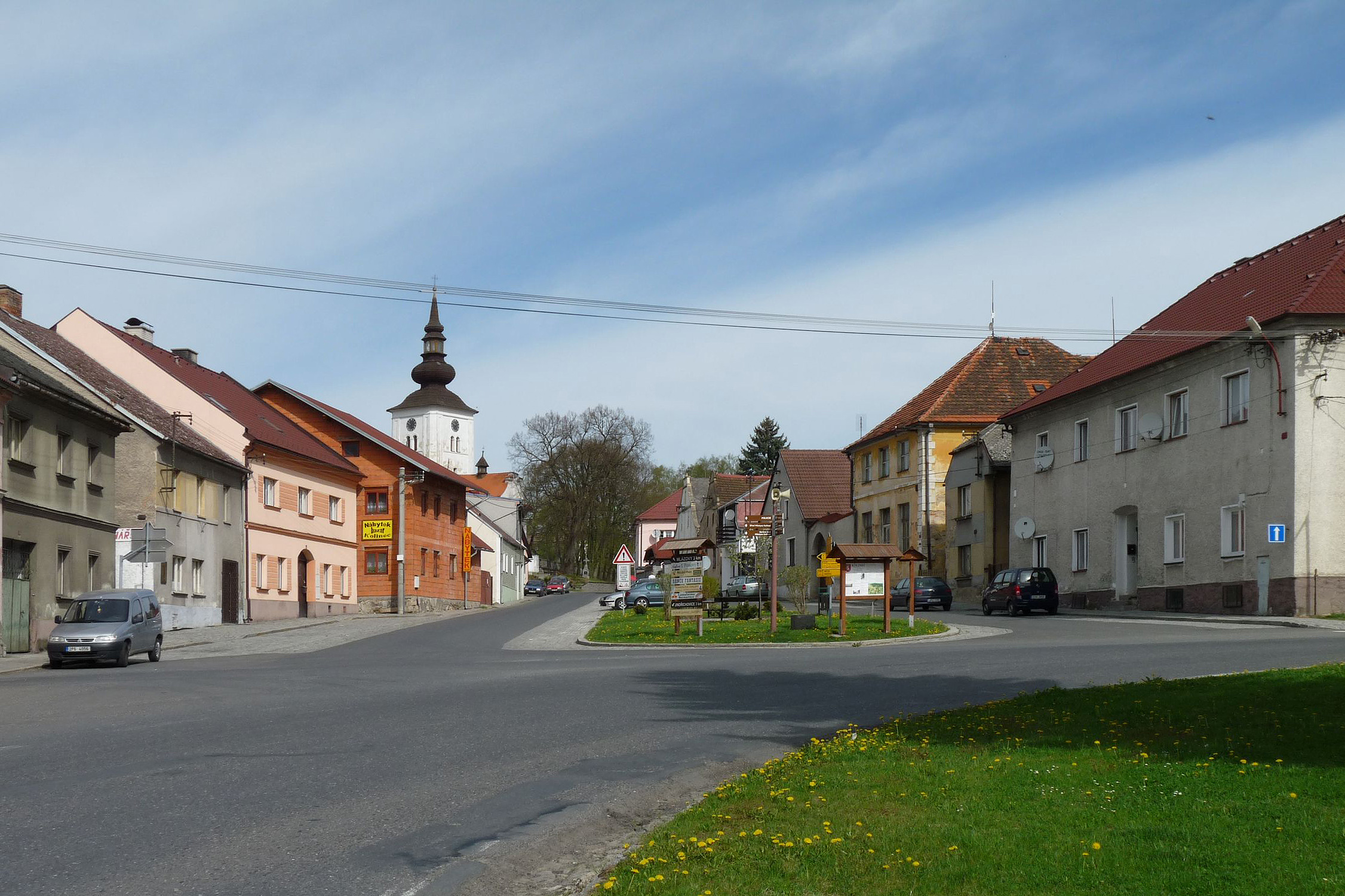 Square in the market town of Kolinec, Klatovy District, Czech Republic.